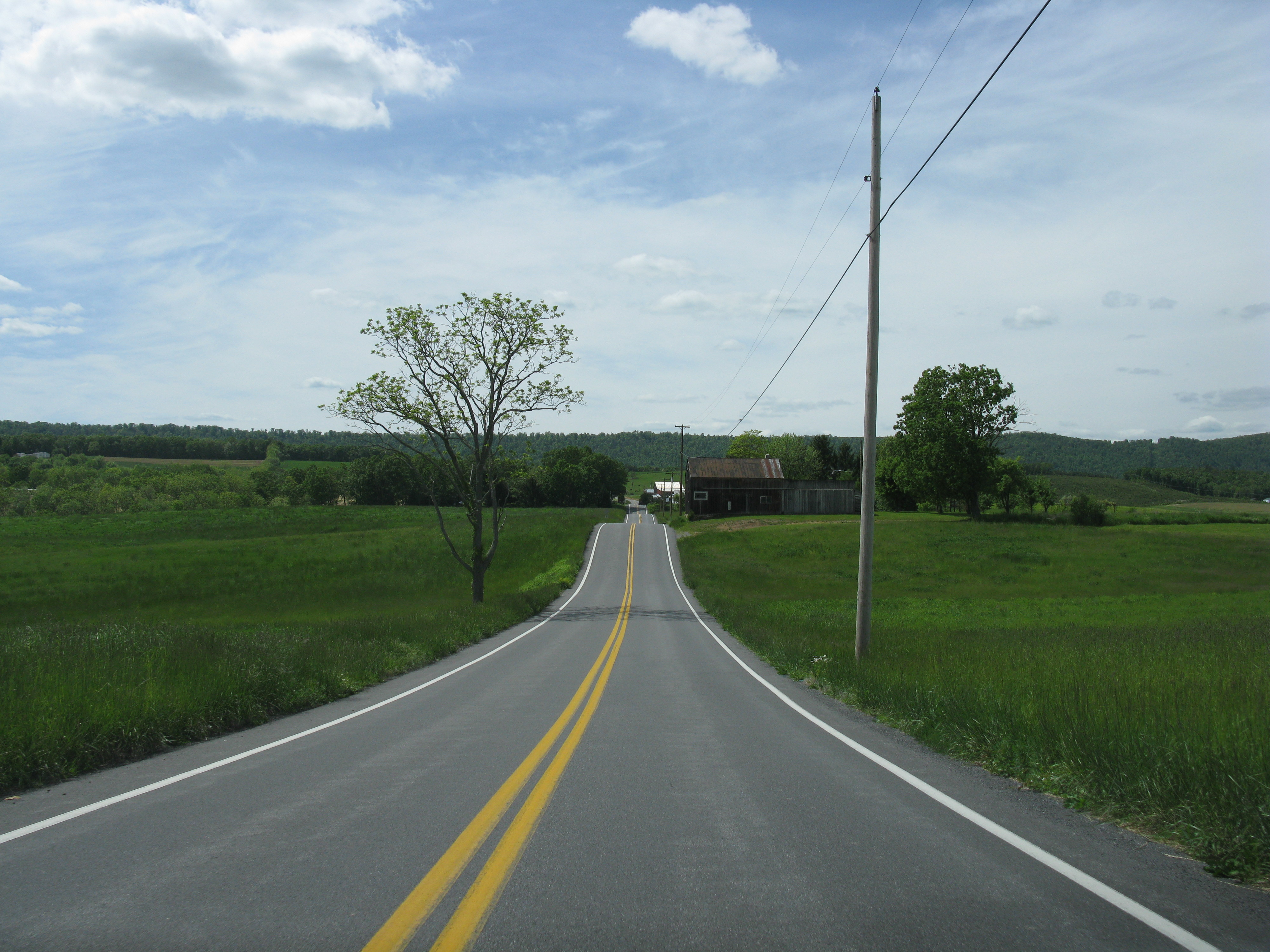 SR 643 near U.S. Route 522, Bethel Township, Pennsylvania